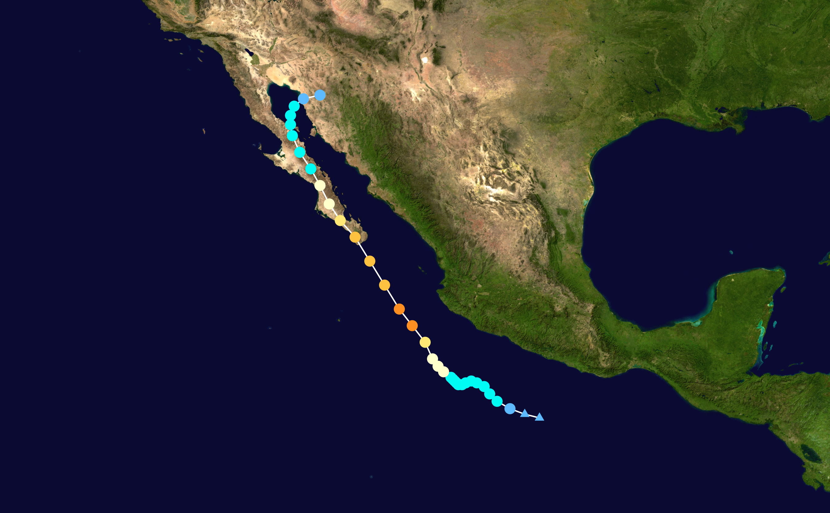 Track map of Hurricane Odile of the 2014 Pacific hurricane season. The points show the location of the storm at 6-hour intervals. The colour represents the storm's maximum sustained wind speeds as classified in the Saffir–Simpson scale (see below), and the shape of the data points represent the nature of the storm, according to the legend below. Saffir–Simpson scale Tropical depression≤38 mph≤62 km/h Category 3111–129 mph178–208 km/h Tropical storm39–73 mph63–118 km/h Category 4130–156 mph209–251 km/h Category 174–95 mph119–153 km/h Category 5≥157 mph≥252 km/h Category 296–110 mph154–177 km/h Unknown Storm type Tropical cyclone Subtropical cyclone Extratropical cyclone / Remnant low / Tropical disturbance / Monsoon depression